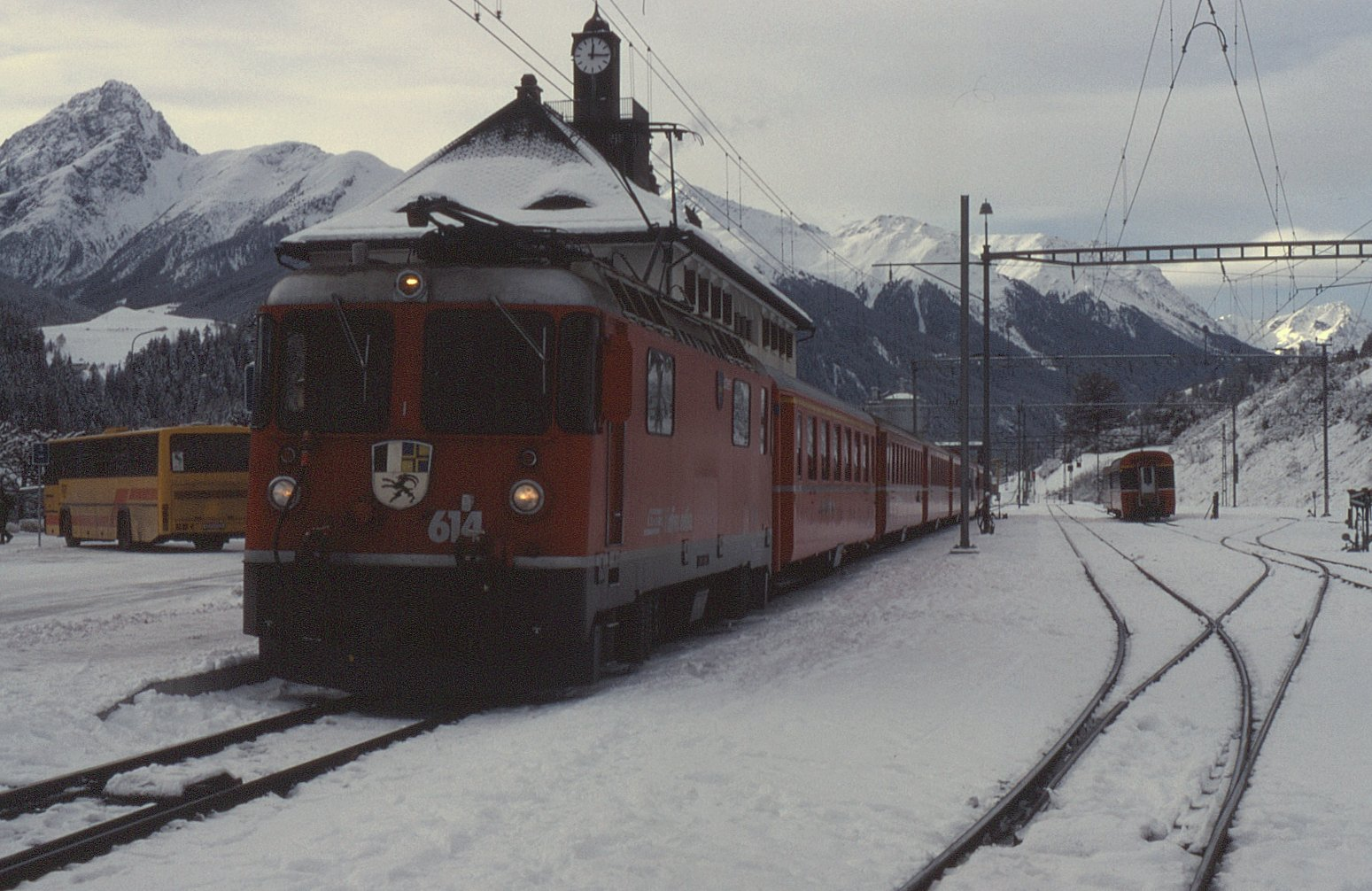 Journeys end for Rhätische Bahn Ge4/4¹¹ no. 614 "Schiers" at Scuol-Tarasp having worked train 335 from Chur. Date taken, 11 January 1999.